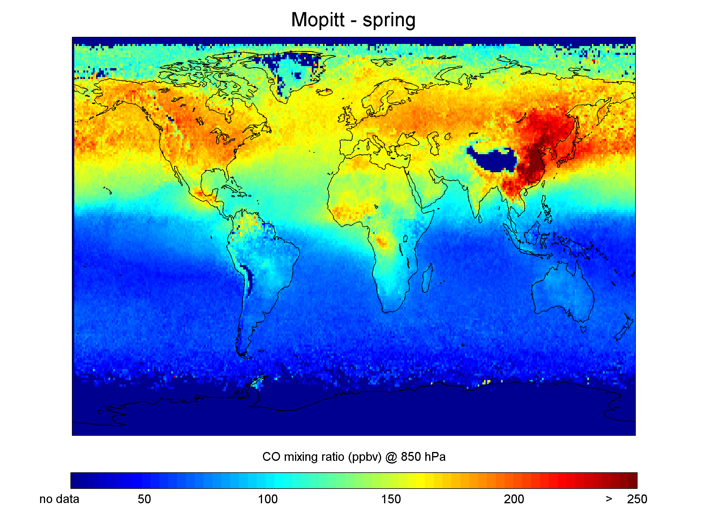 The image shows the average amounts and geographic sources of CO from April, May and June for the years 2000 through 2004. Blue areas have little or no atmospheric CO, while progressively higher levels are show in green, yellow, orange, and red. These concentrations were measured by the Measurements Of Pollution In The Troposphere (MOPITT) instrument on NASA's Terra satellite.